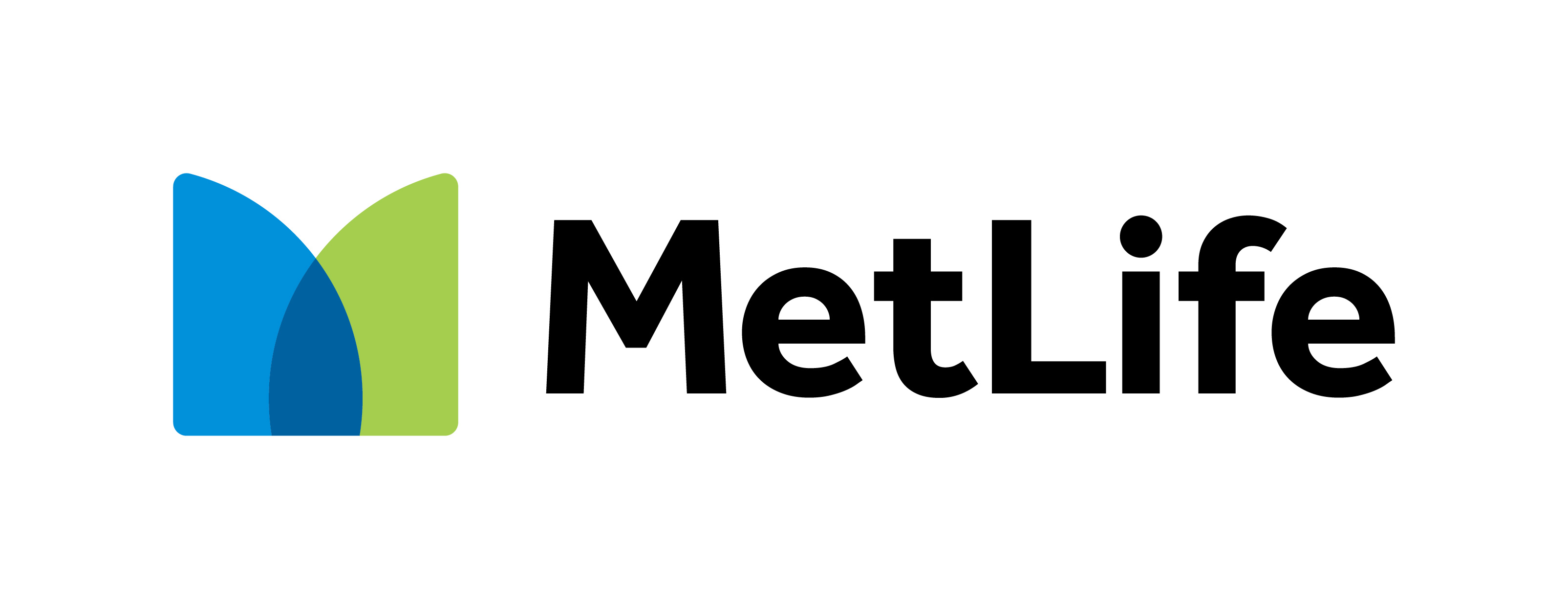 Metlife logo